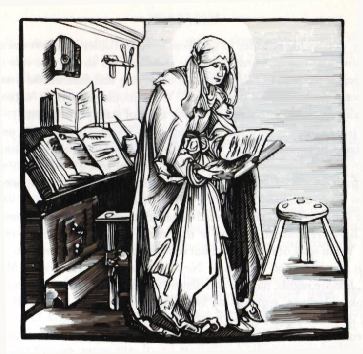 Birgitta Flickr data on 2011-08-13 Tags: old picture, Birgitta, Public Domain User: paukrus Ruslan